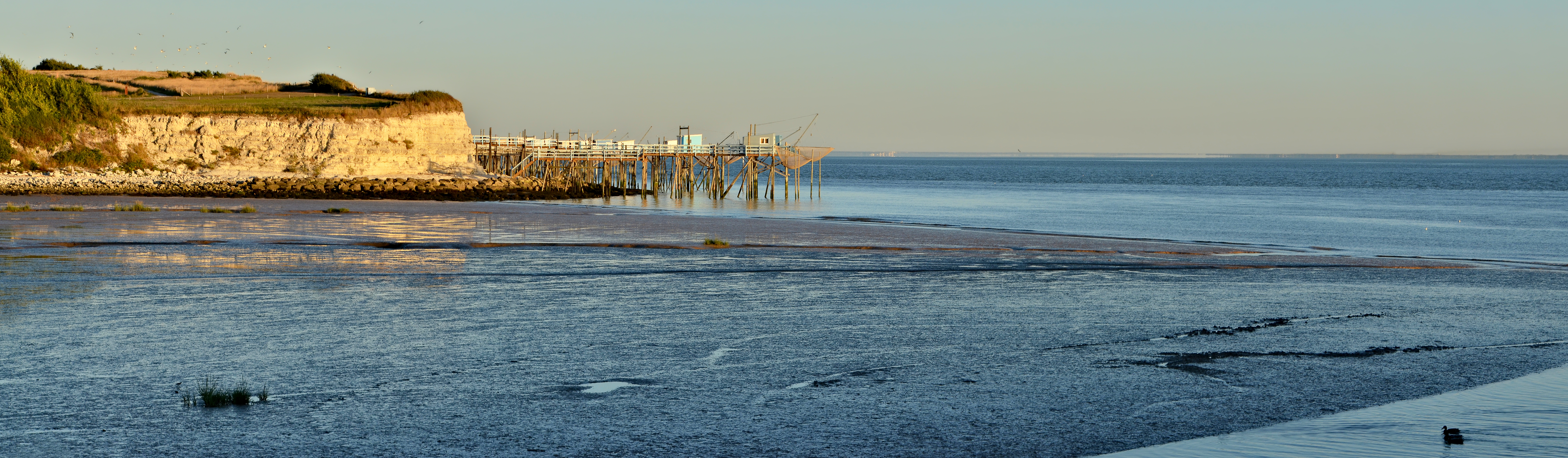 Evening view of Talmont bay and Gironde estuary, from Léon-Bonnin slipway, Talmont-sur-Gironde, Charente-Maritime, France.